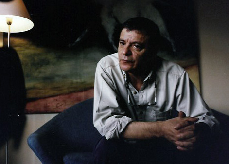 This image was captured during one of the key interviews granted by Mr.Luis Gusman for the documentary film “La otra orilla”.